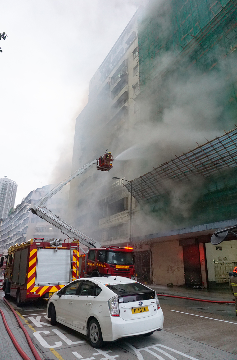 Kai Tak Factory Building in San Po Kong, Hong Kong.